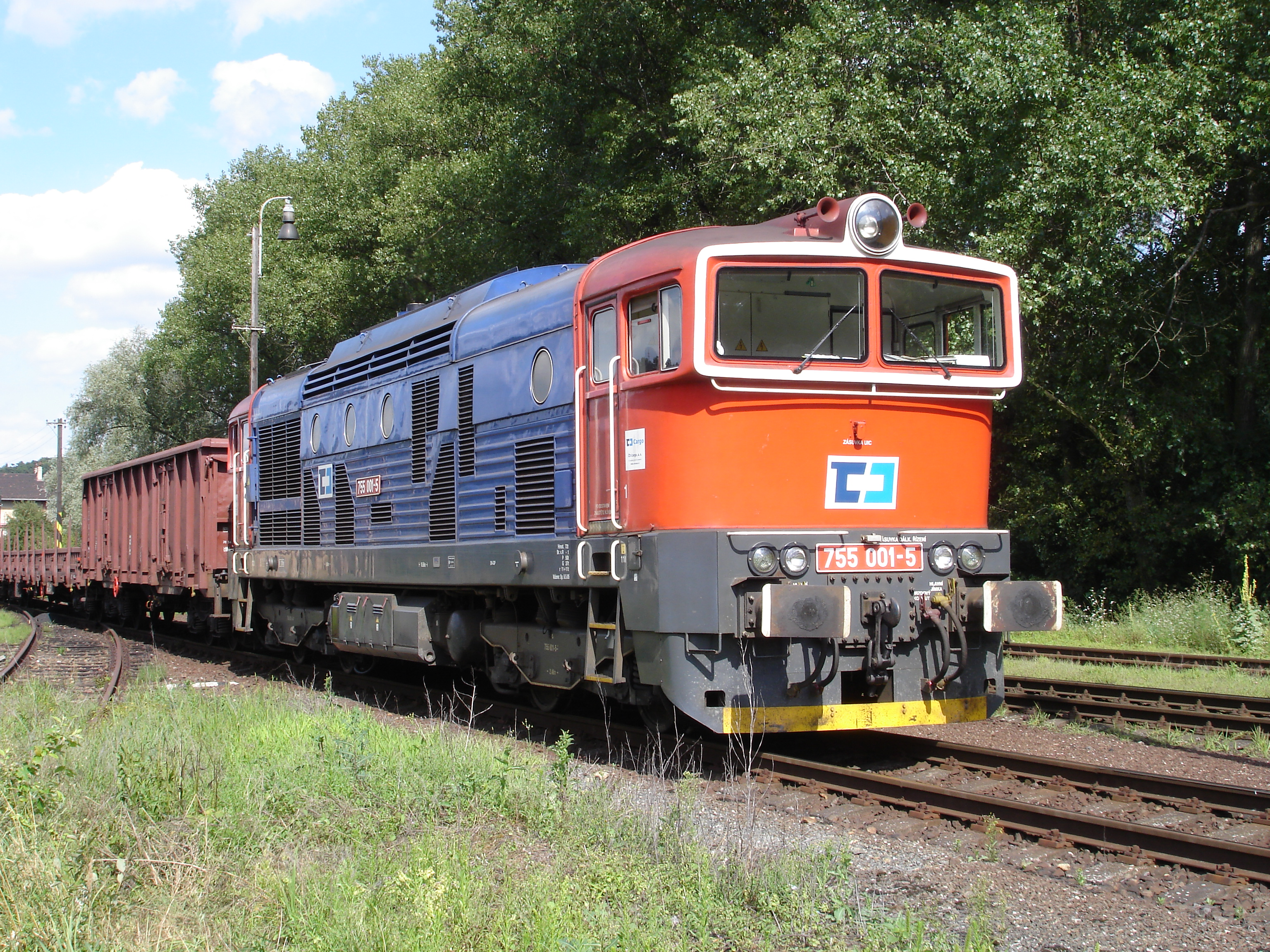 lokomotive 355.001 of CD in Otvovice, Czech republic